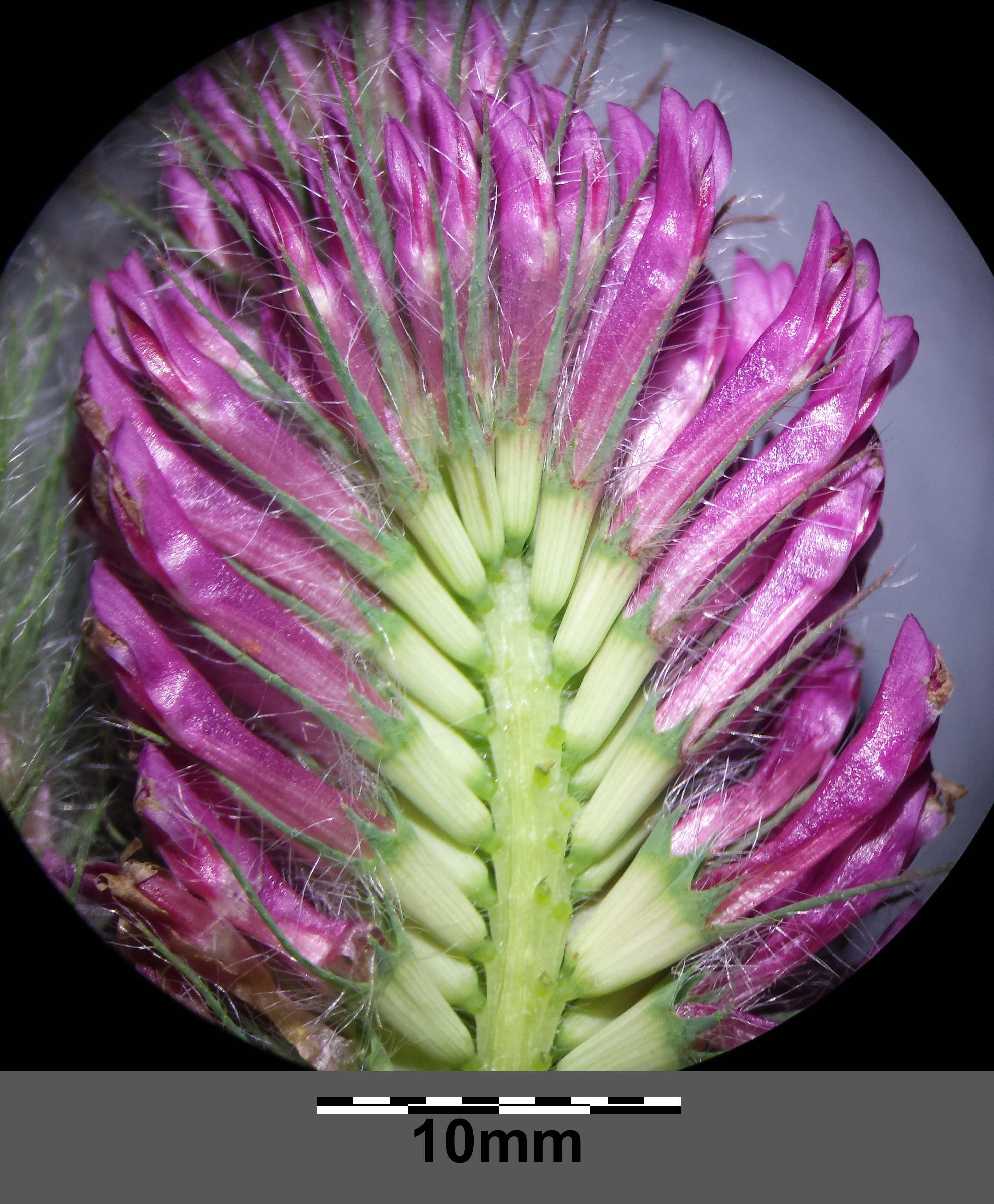 Inflorescence, front flowers removed Taxonym: Trifolium rubens ss Fischer et al. EfÖLS 2008 ISBN 978-3-85474-187-9 Location: Würfelberg near Bergau, district Hollabrunn, Lower Austria - ca. 275 m a.s.l. Habitat: border of a shrubbery